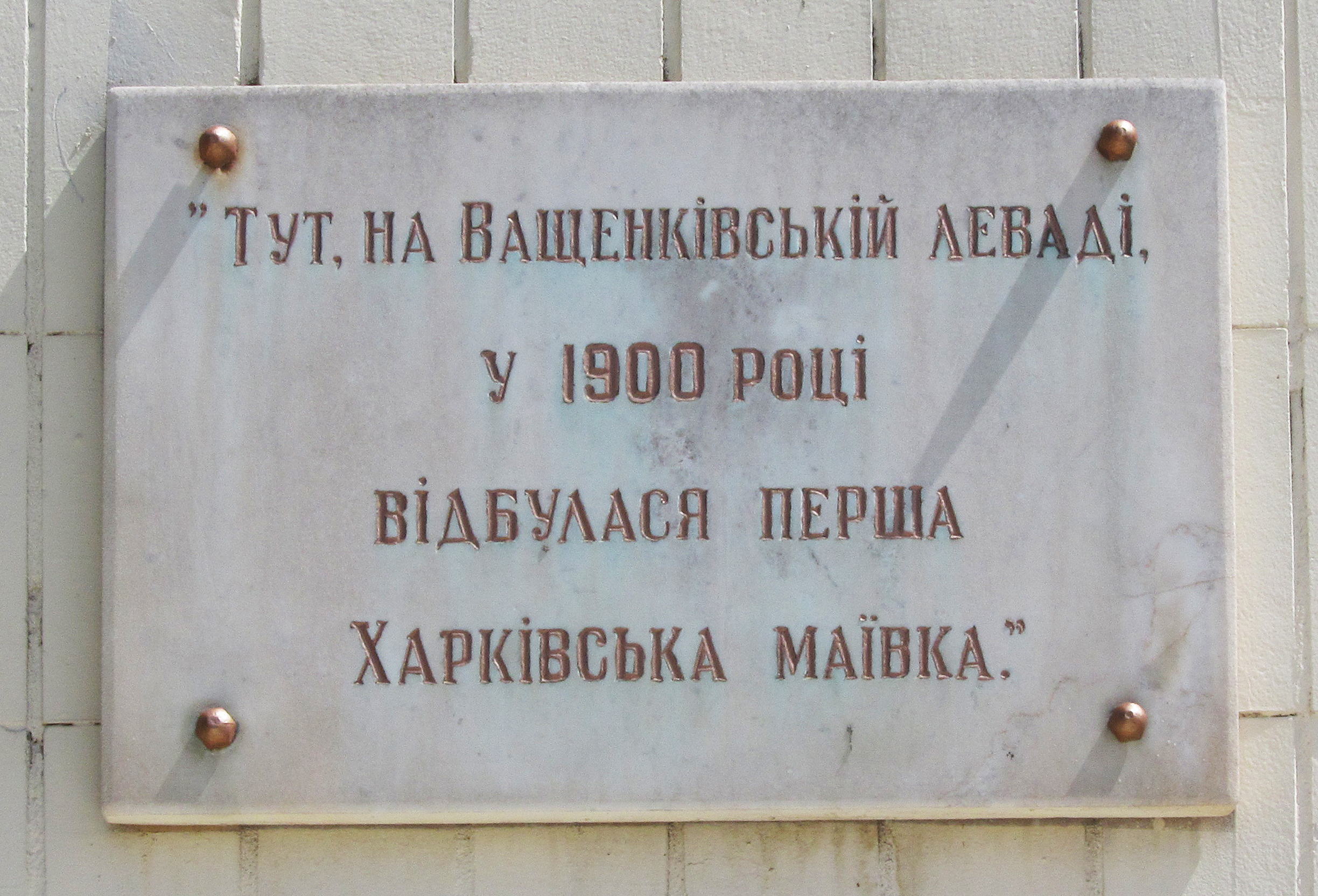 Commemorative plaque to the May Day rally. Velyka Panasivska street, 90, Kharkiv.